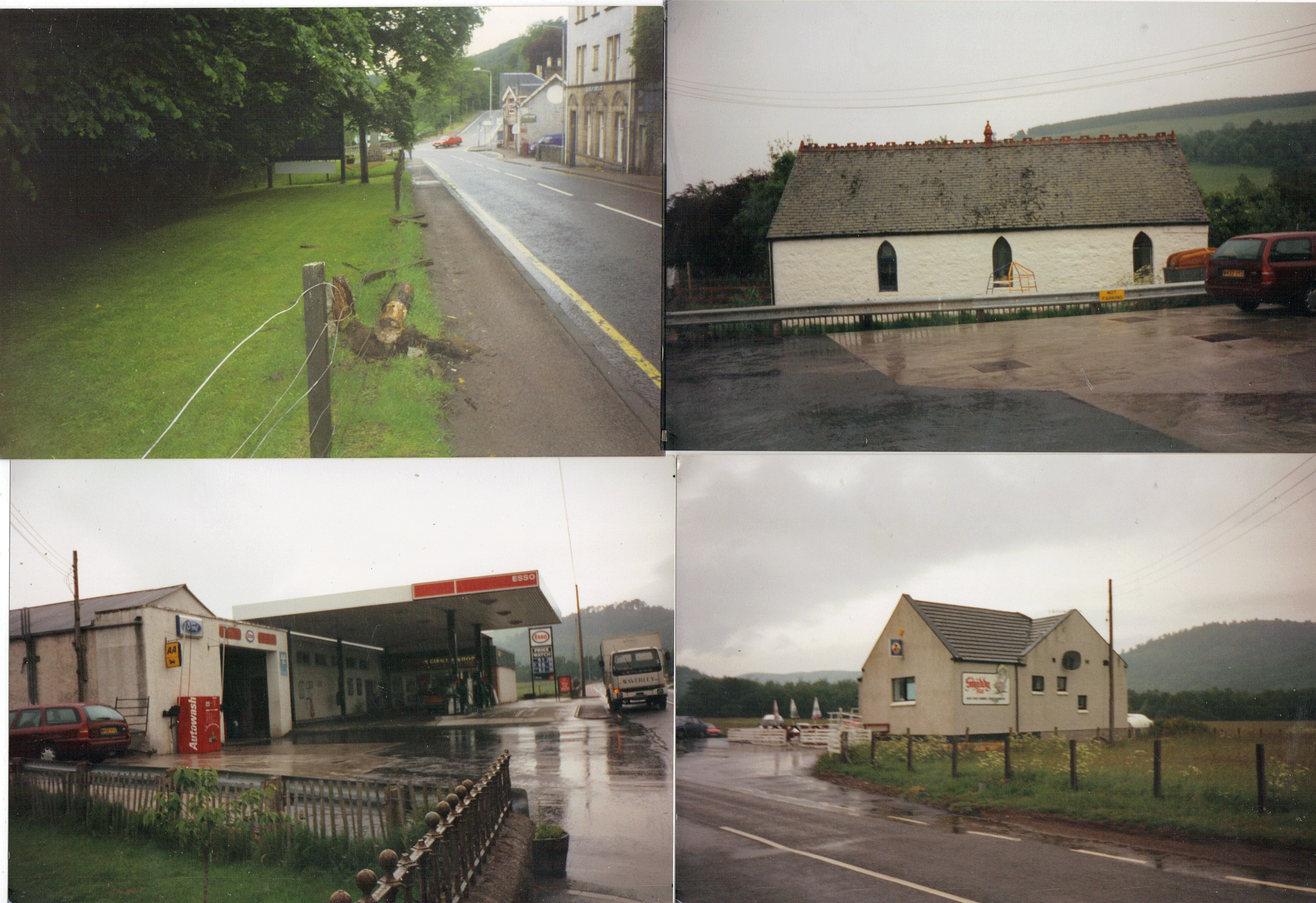 4 shots I took of Drumnadrochit in 1998.